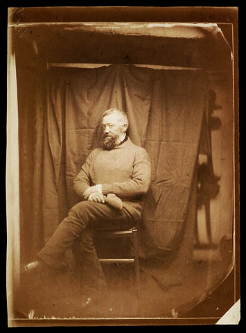 Portrait of a sailor taken on board the French aviso Ardent, 1857.